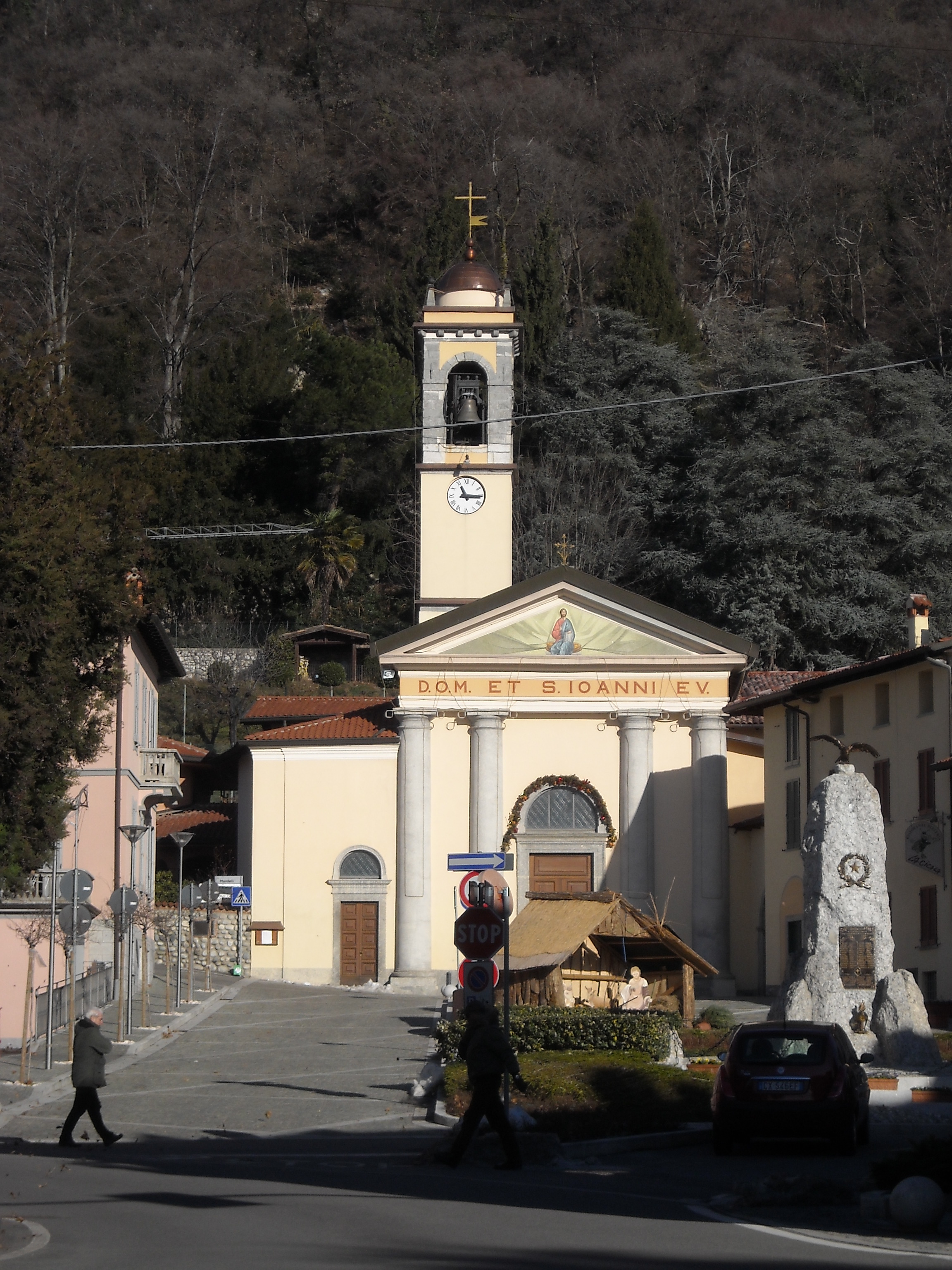 Parish church of St. John the Evangelist, Montorfano, Como, Italy